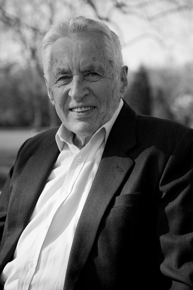 George Mikell - actor in films such as 'The Great Escape' and 'The Guns of Navarone' - in Battersea Park, London.